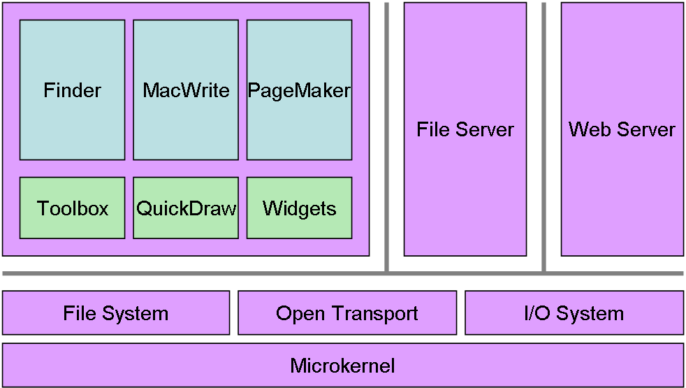 Simple diagram showing the basic organization of the Copland runtime architechture. Modified from a similar version published in develop 06/95, Apple's technical magazine.